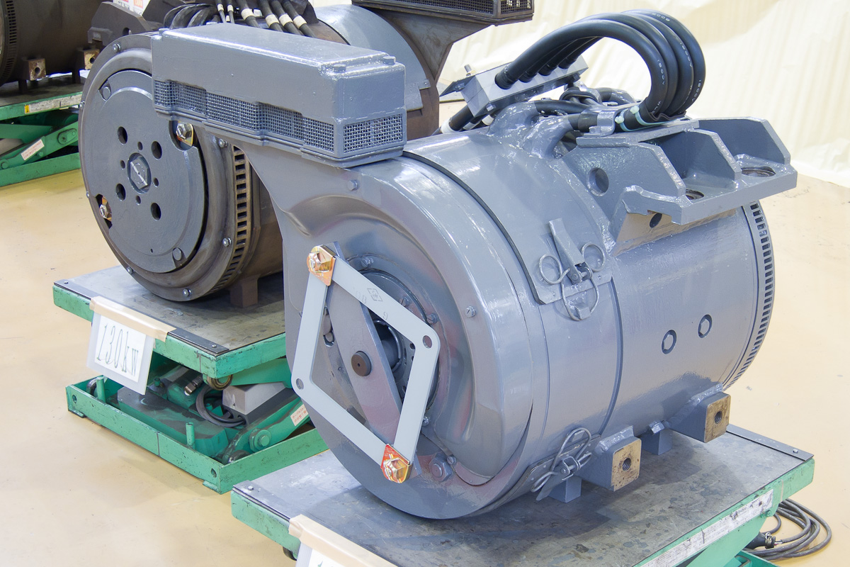 150kW DC traction motor for Seibu-Railway series 101 EMU.